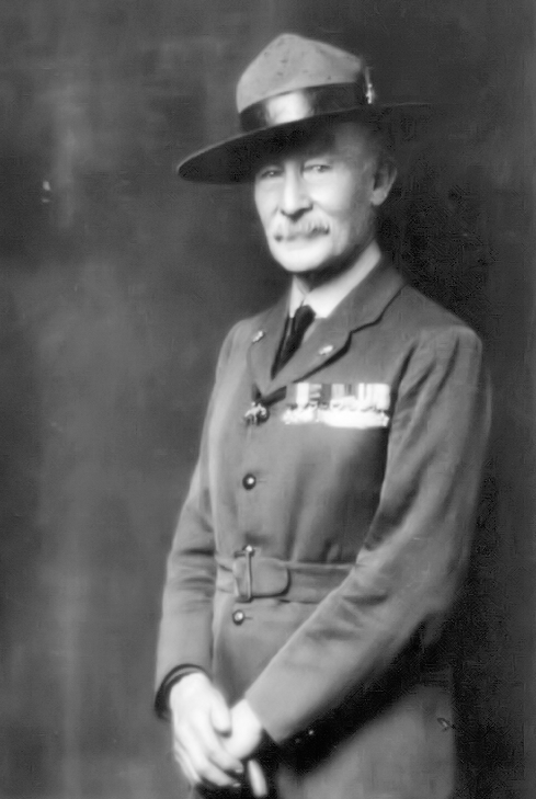 Robert Baden-Powell, founder of the scout movement.